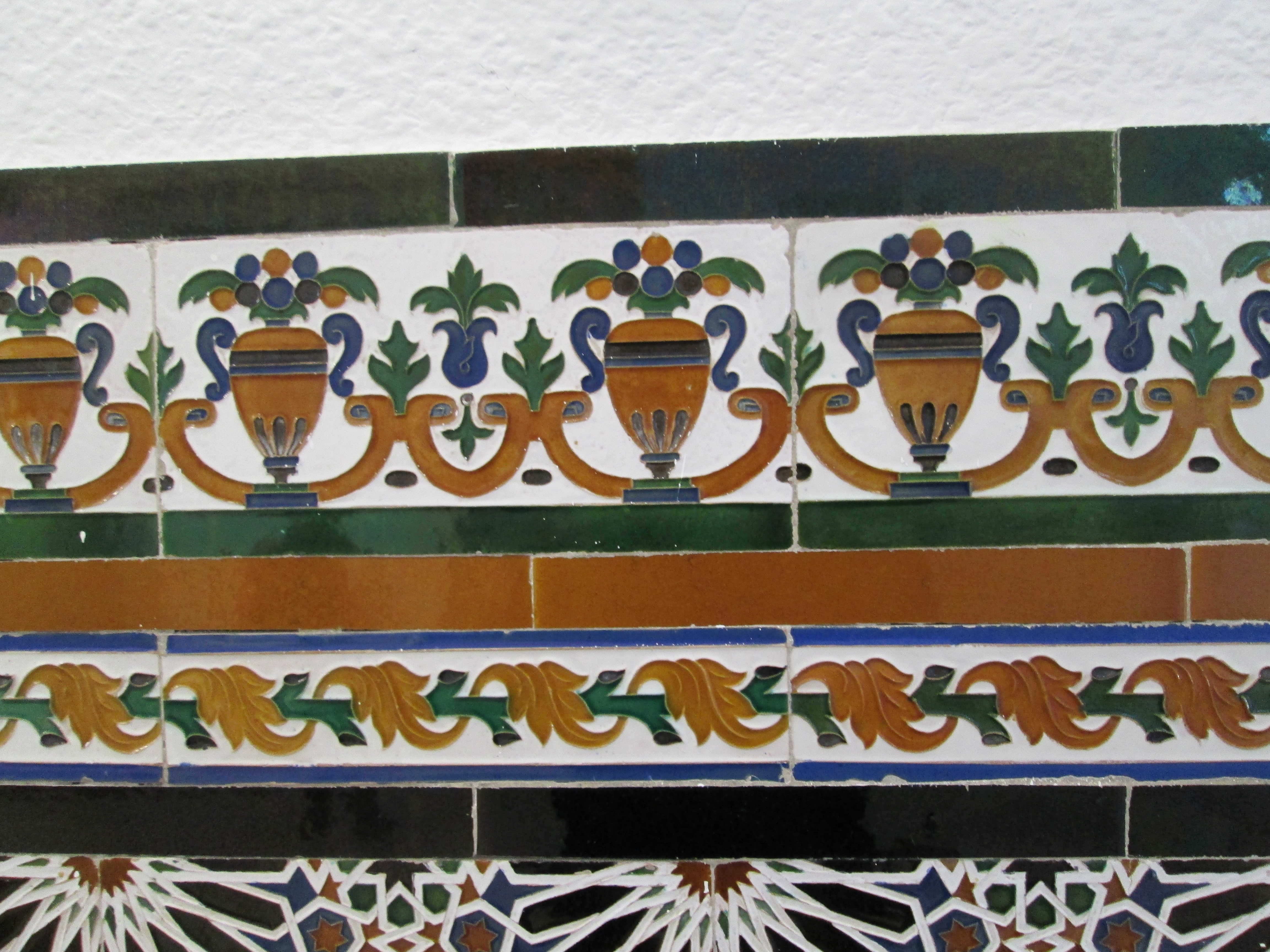 La Térmica, Málaga